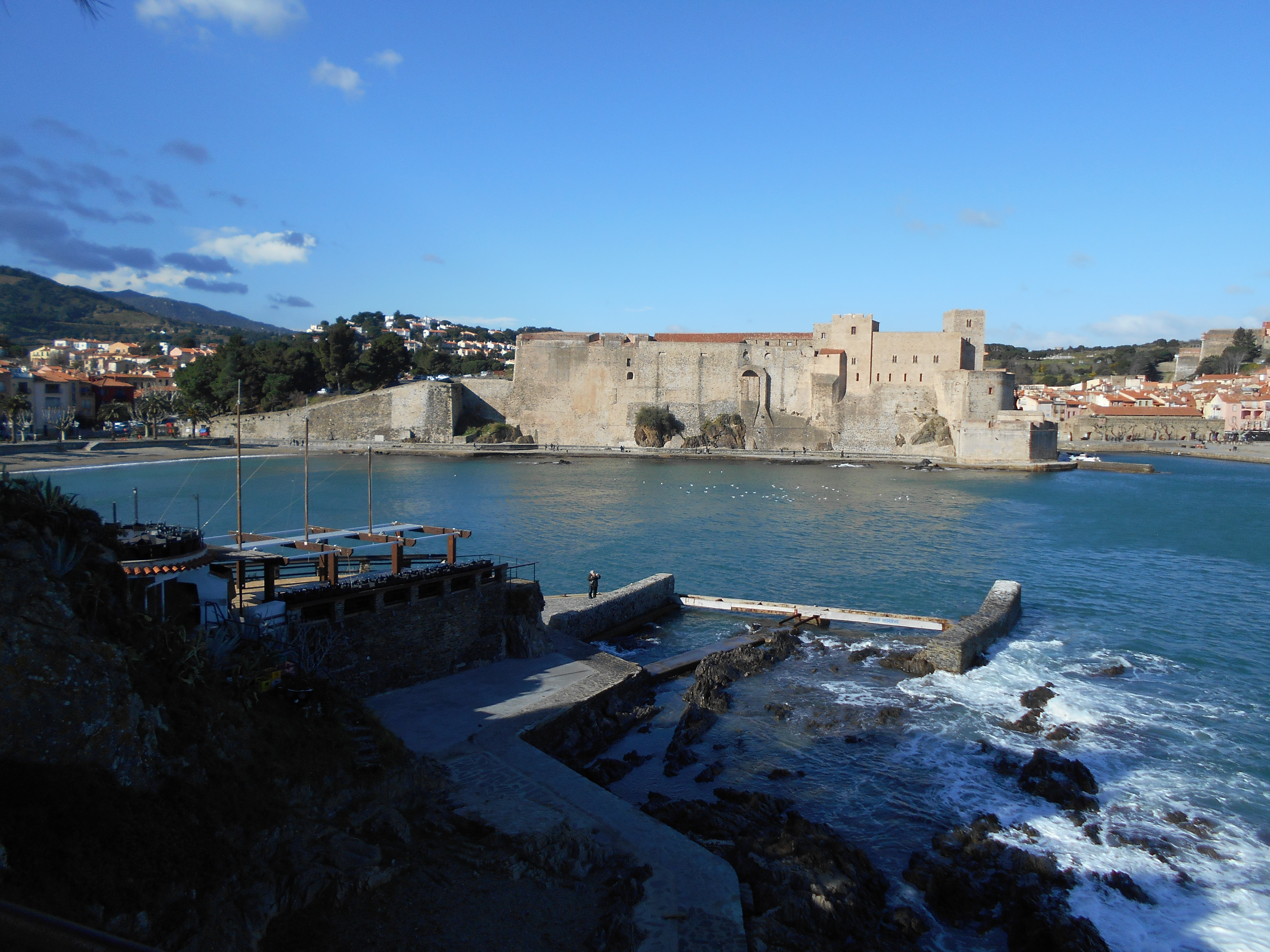 Royal castle of Collioure from the south, France